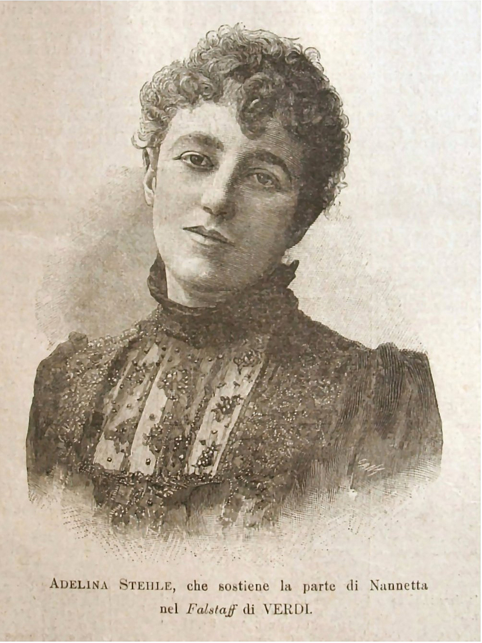 Adelina Stehle as Nannetta in Giuseppe Verdi' 'Falstaff' (she created this role in 1892)